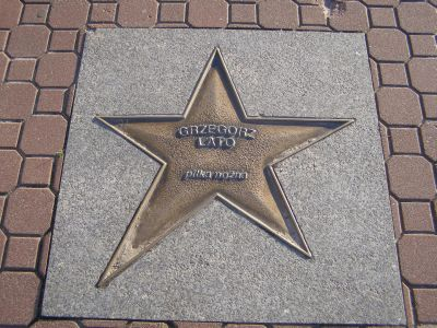 Grzegorz Lato's star in Władysławowo, Poland